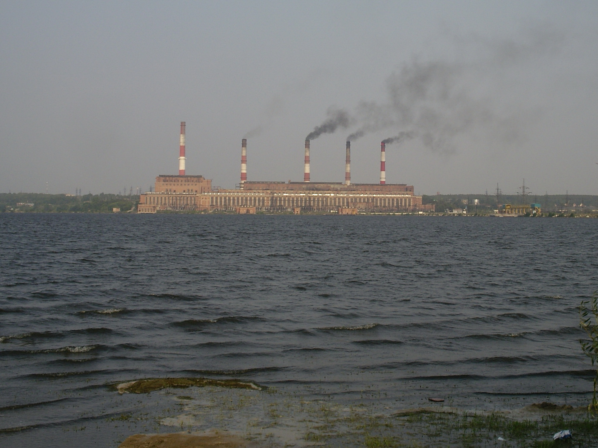 Yuzhnouralsk GRES